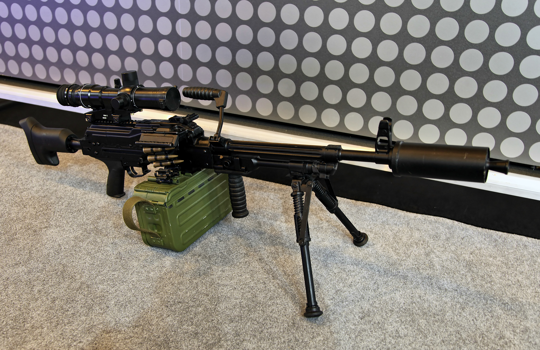 7.62mm machine gun 6P69 Pecheneg-SP